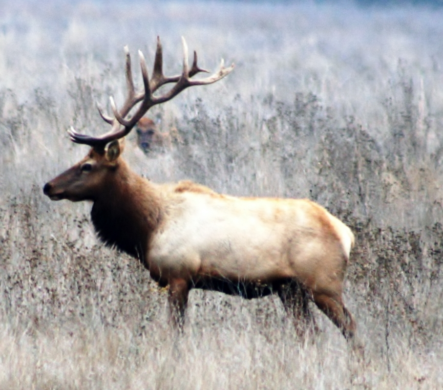 Tule Elk bull.